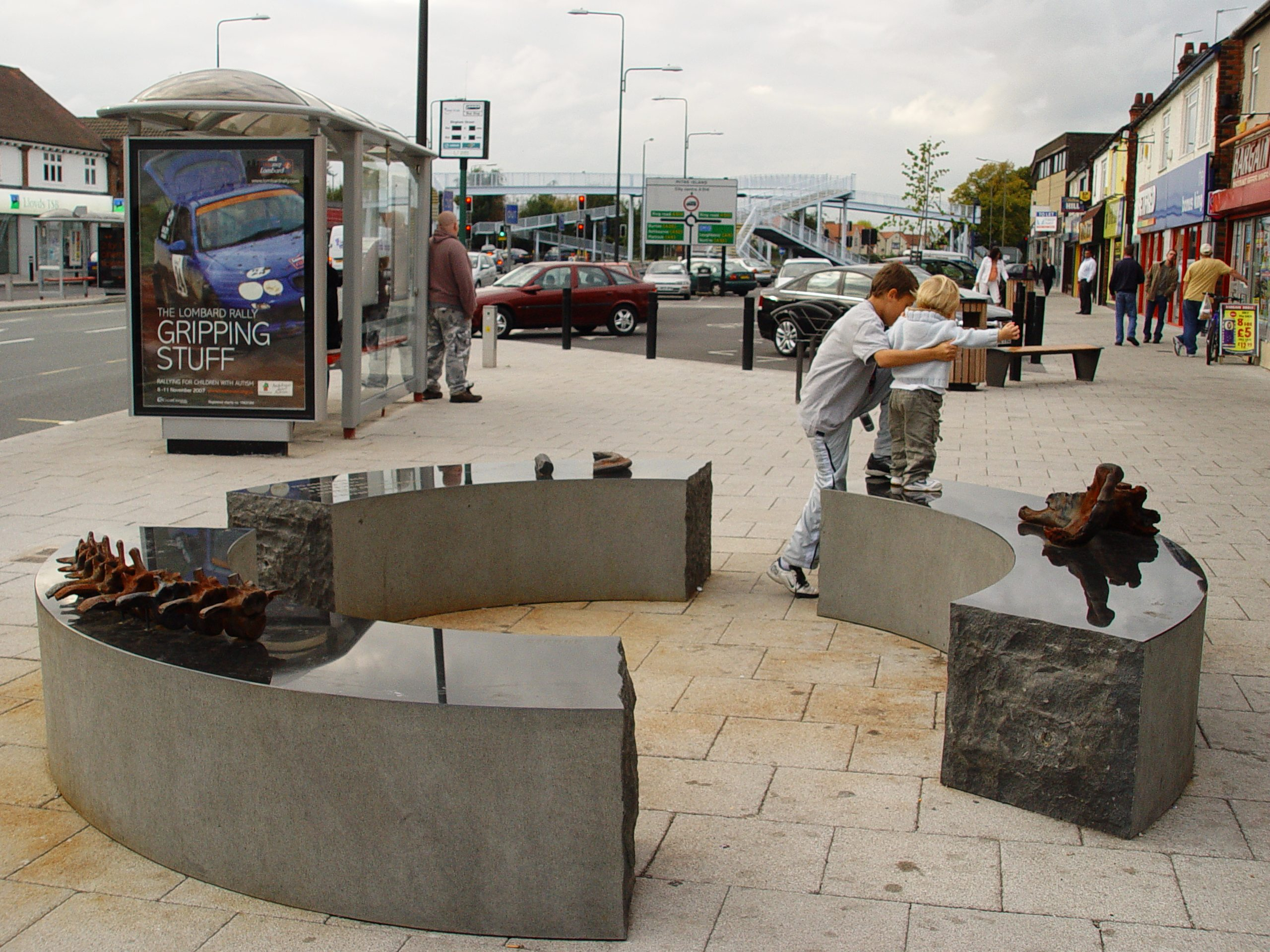 Public realm sculpture in Allenton Shopping Centre, Derby. It reflects the nearby discovery of the remains of a Hippopotamus in the late 19th century. The sculpture was created by Michael Dan Archer and incorporates both laser scanned and modelled copies of the original bones. The skeleton of the Allenton Hippo is displayed in nearby Derby Museum.